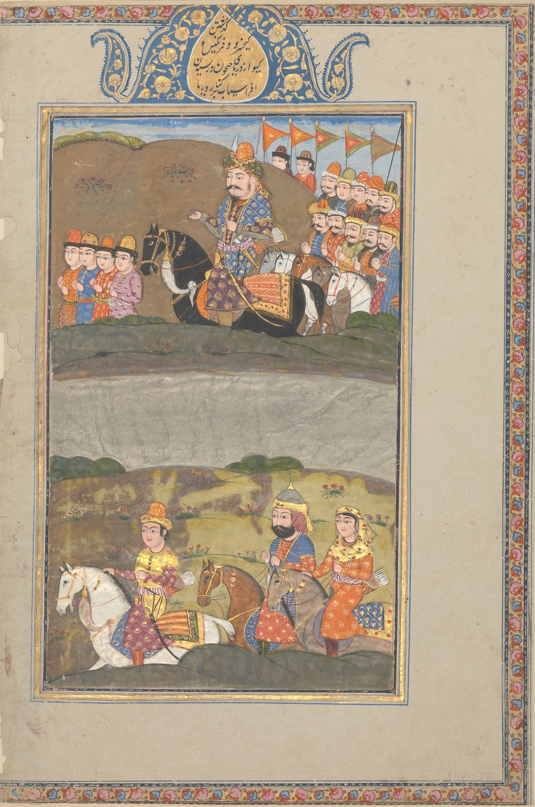 Caicosroes cruza o rio Oxo com Give e Farangis. Folio da Épica dos Reis